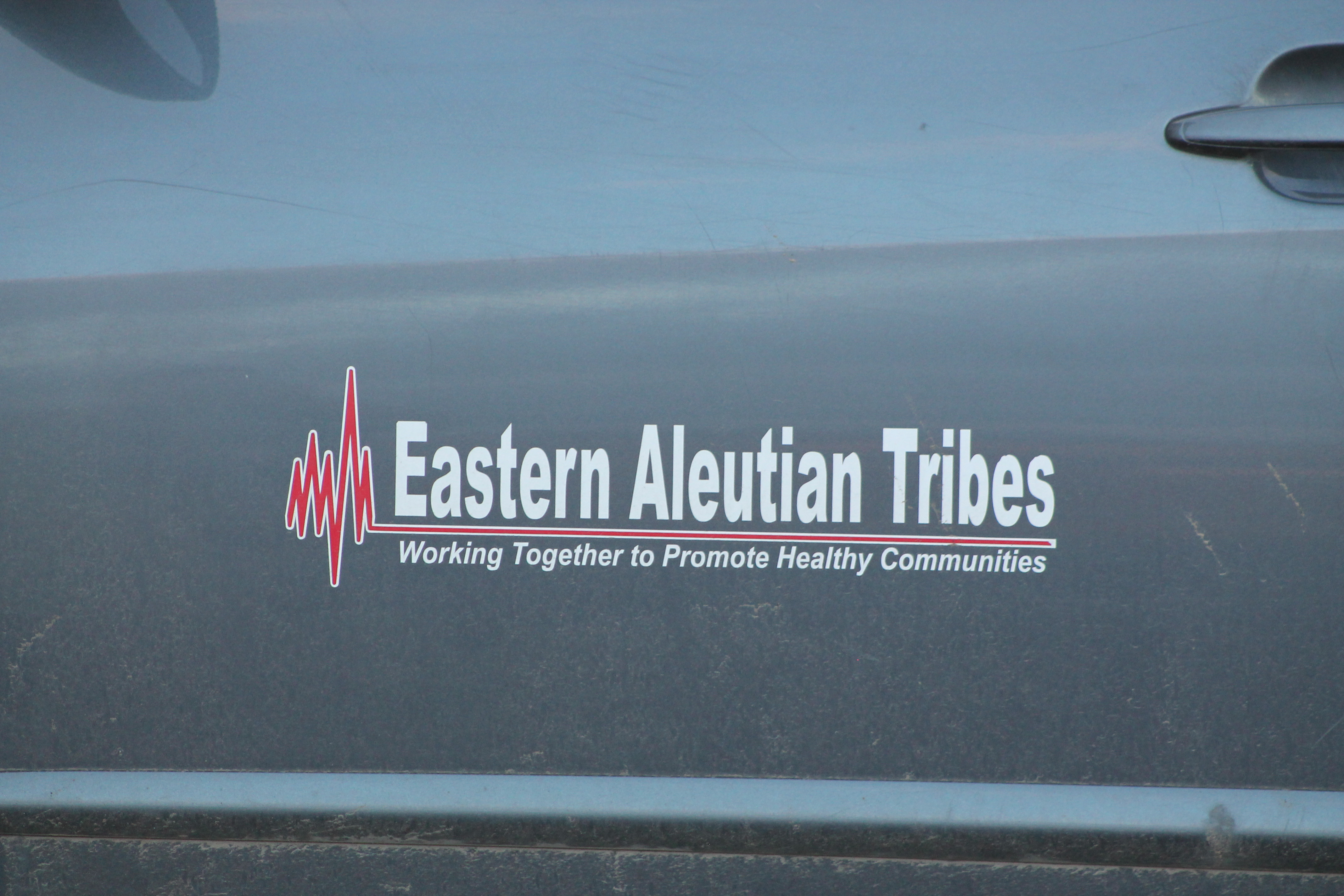 Logo on side of vehicle owned by Eastern Aleutian Tribes Inc.This is a photo taken in a public place by me.